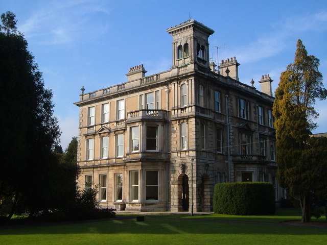 Reed Hall This 1867 building in an Italianate style is now part of the University of Exeter.